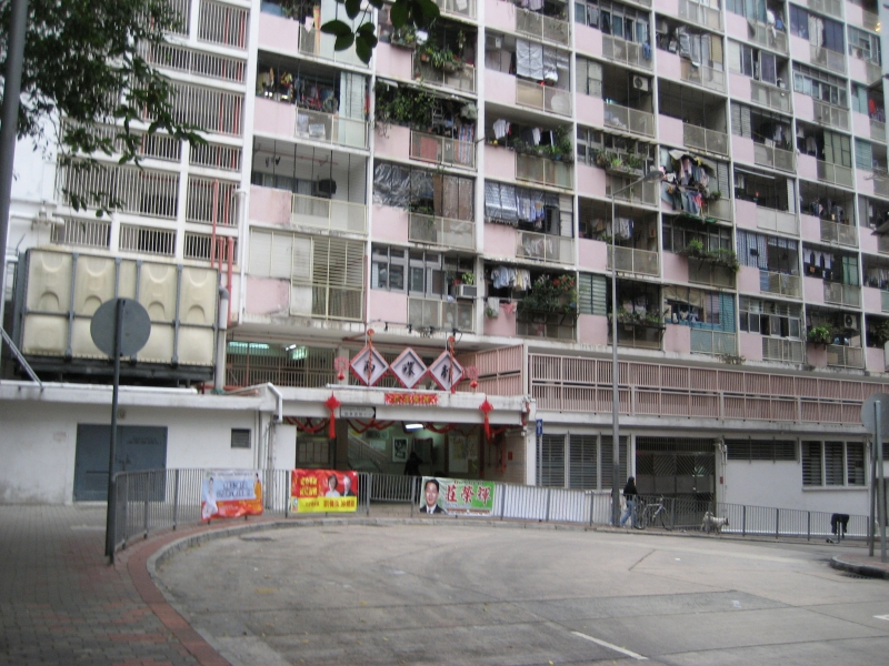 Sai Wan Estate